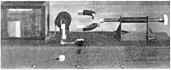 A replica of the experimental apparatus used by German physicist Heinrich Barkhausen in 1919 to detect the Barkhausen effect. This is a hissing or series of crackling sounds heard in an earphone attached to a coil of wire around an iron core when the magnetic field through it changes. When a magnet is brought near a piece of iron, the domain walls of the magnetic domains move, reorienting the domains so the , The sound is caused by the domain walls getting hung up on defects in the crystal lattice and then "snapping" past them. This effect is responsible for the magnetization hysteresis curve of the magnetic material. The apparatus consists of a coil of wire wound around an iron core (center) with the coil attached to a vacuum tube amplifier and a pair of earphones. A horseshoe magnet (right) that can be rotated by a knob is next to the iron. When the magnet is rotated by 180°, its magnetic field which passes through the iron core changes from one direction to the opposite direction. The Barkhausen noise is heard in the earphone while the magnet is being turned.